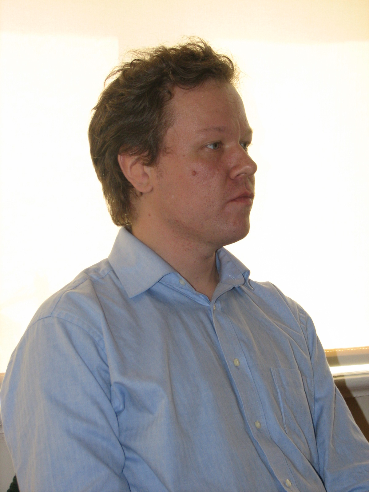 Latvian computer scientist and mathematician Andris Ambainis in Riga, Latvia (10 June 2009).